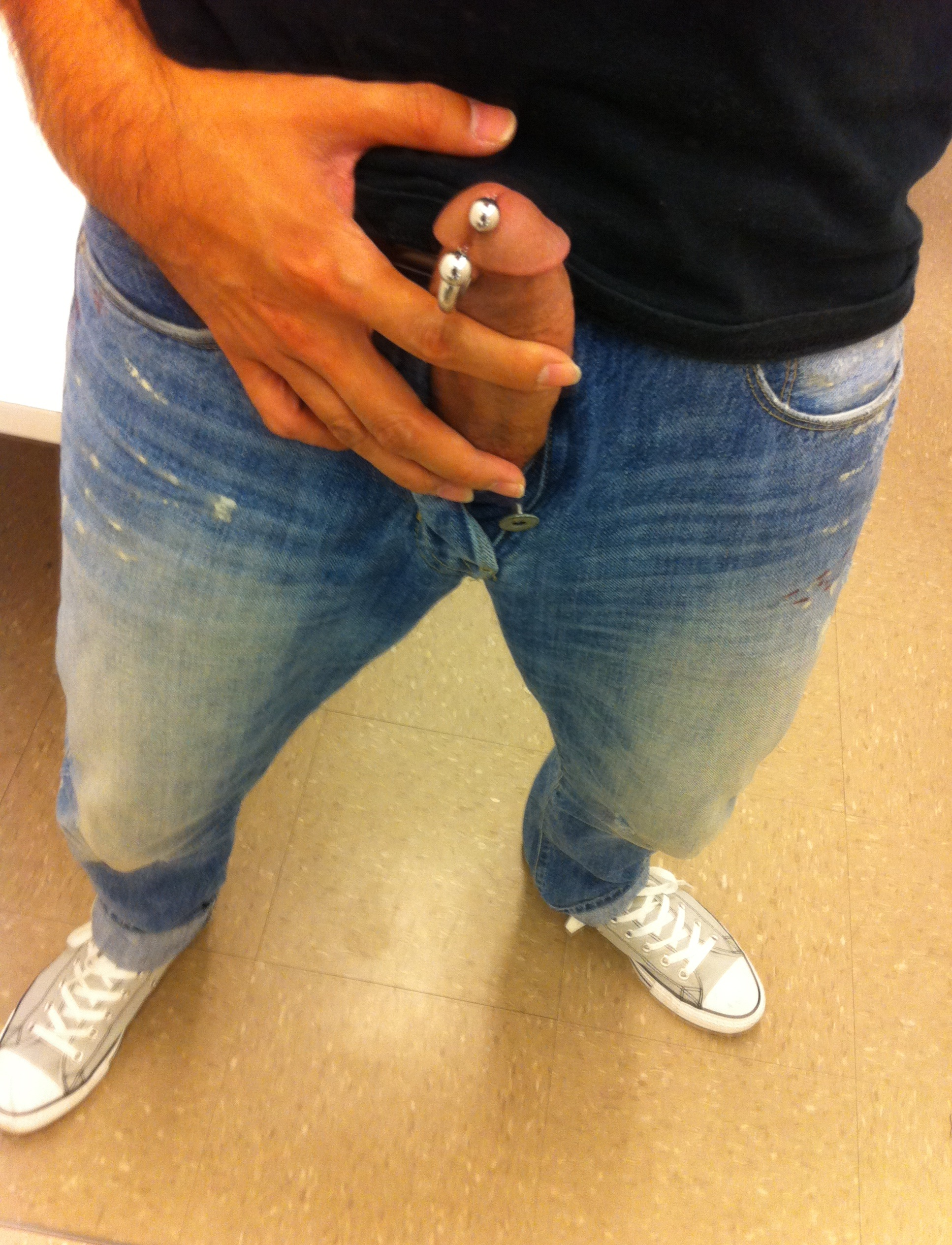 Prince Albert in the fitting room